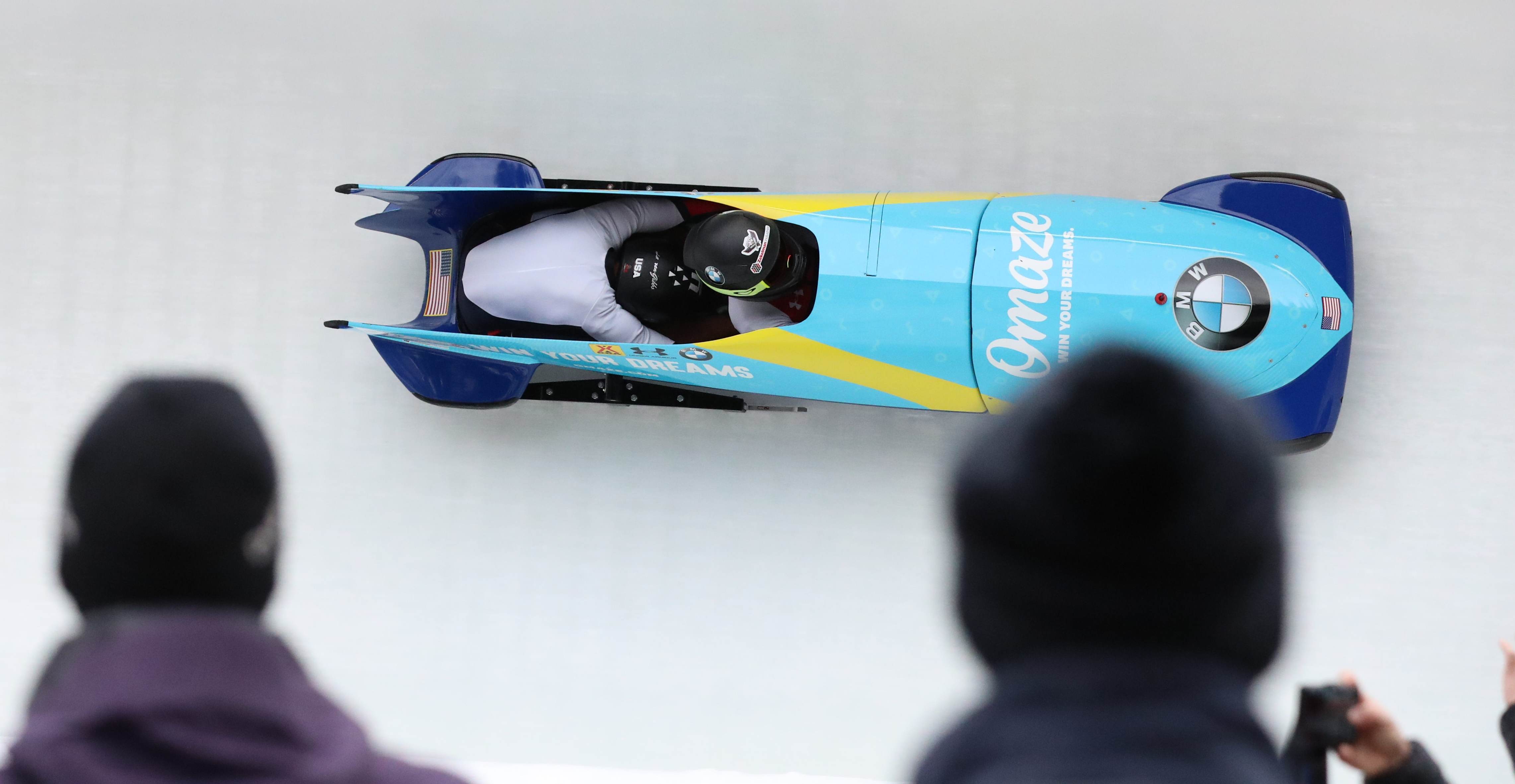 3rd run at the 2-woman bobsleigh at the Bobsleigh and Skeleton World Championships 2020 in Altenberg